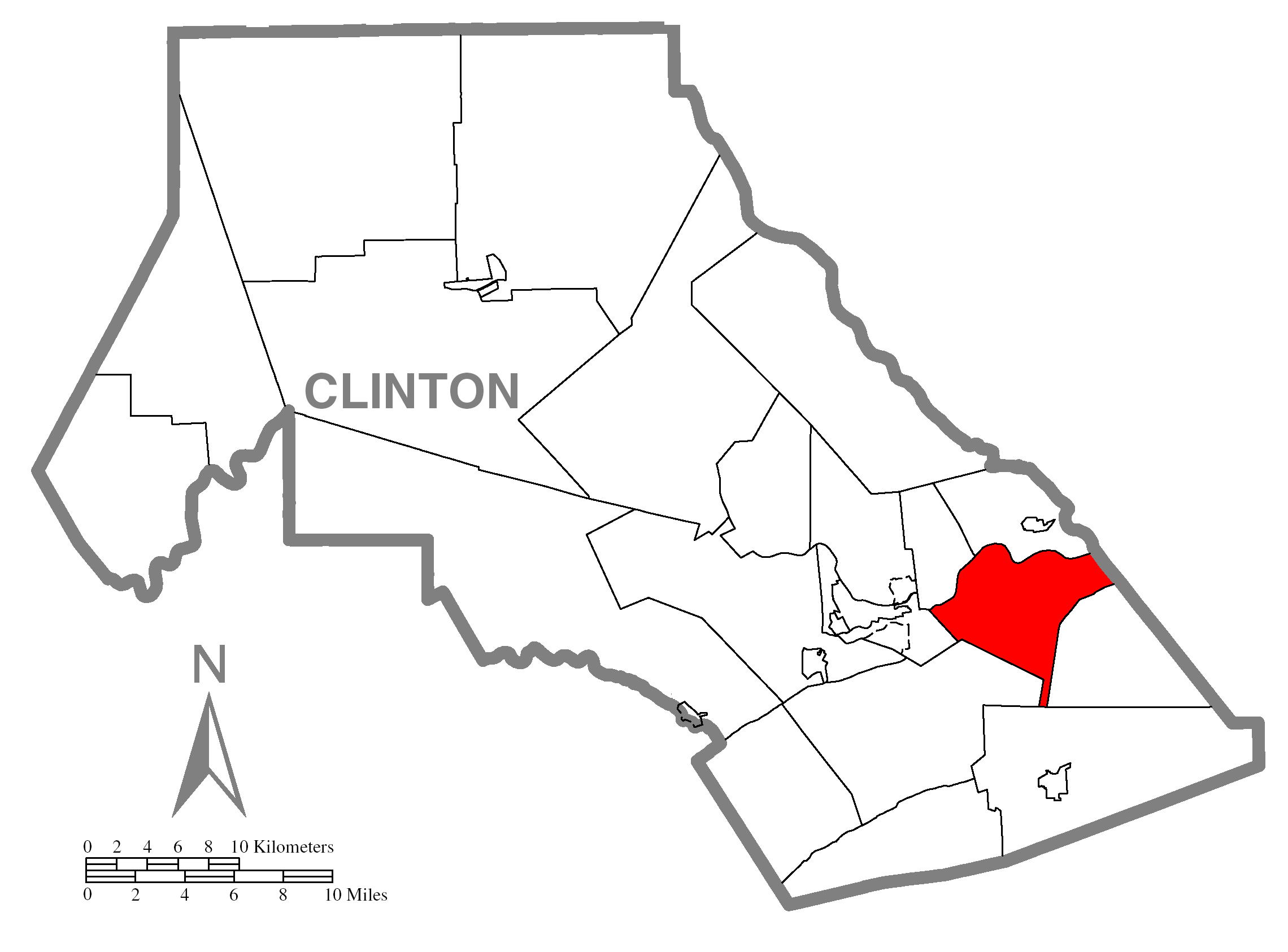 A map of Clinton County showing Wayne Township, Pennsylvania (alternate) highlighted on the map.